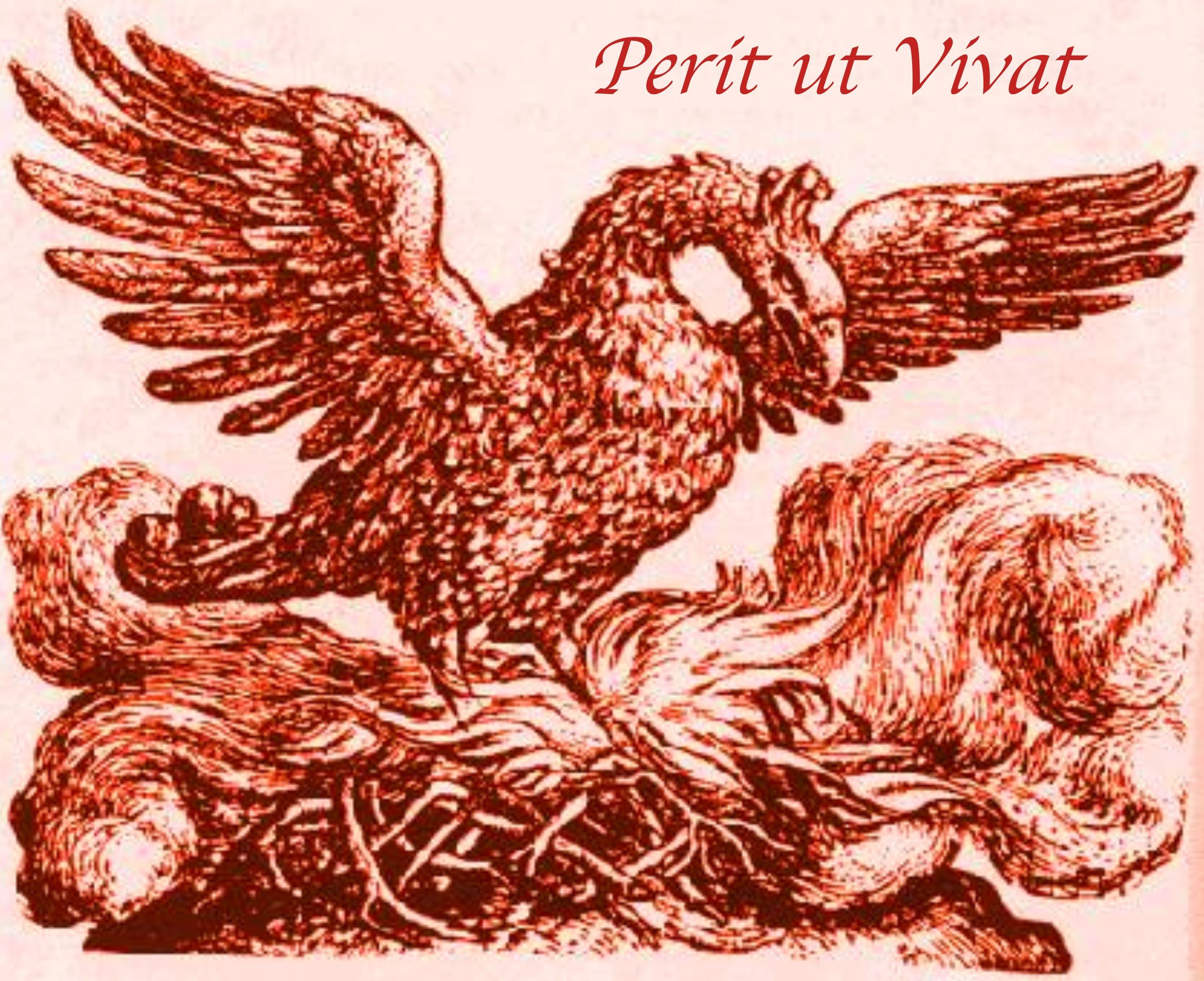 Phenix from SRR, "Perit ut Vivat"